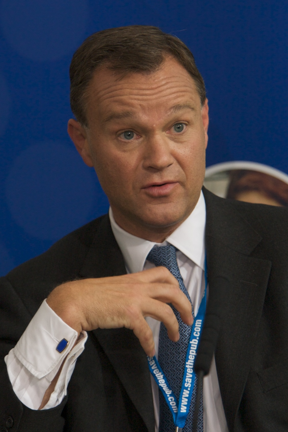 Mark Simmonds, British politician and Shadow Health Minister, speaking at the Health Hotel session "One in three: Tackling cancer is an election issue" at the Manchester Central Conference Centre during the Conservative Party Conference 2009.